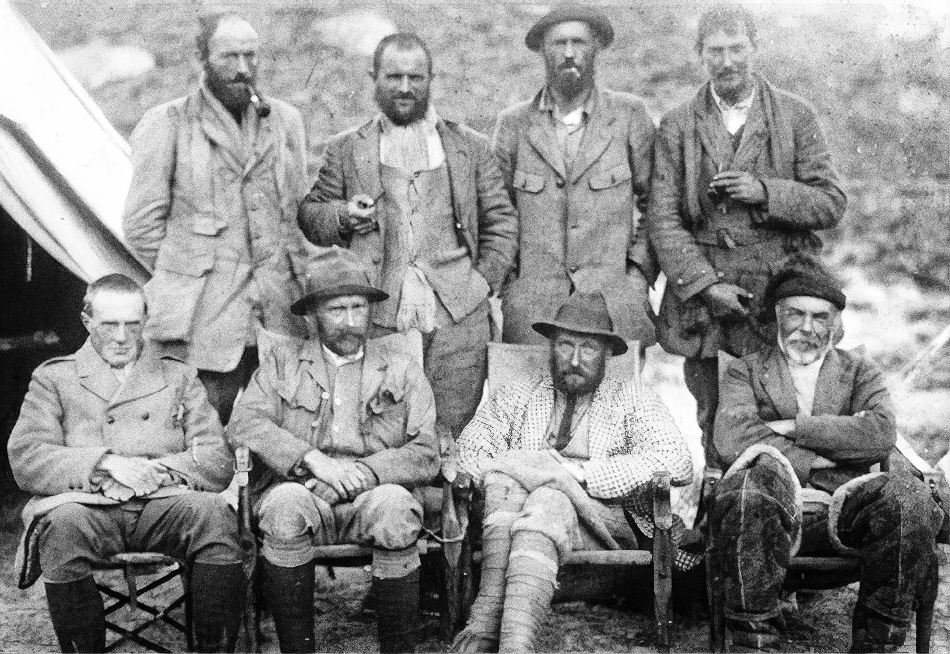 1921 Mount Everest reconnaissance expedition team members. Standing (l-r): Guy Bullock. Henry Morshead. Oliver Wheeler. George Mallory. Sitting (l-r): A.M. Heron. Sandy Wollaston. Charles Howard-Bury. Harold Raeburn